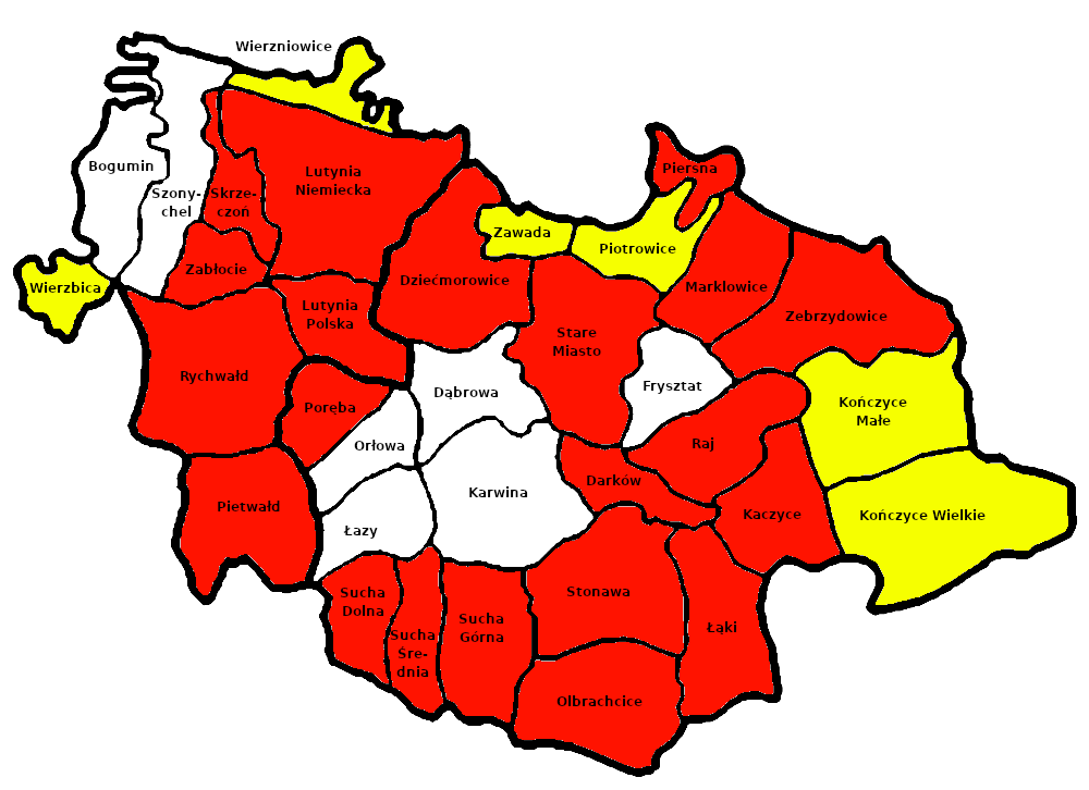 Austria-Hungary 1911 elections results, Walhbezirk 15 red - Tadeusz Reger (PPSD, socialist) yellow - Franciszek Halfar (ZŚK)